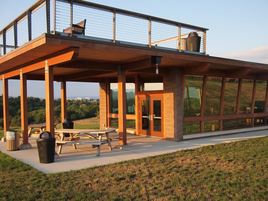 Trexler Education Center.